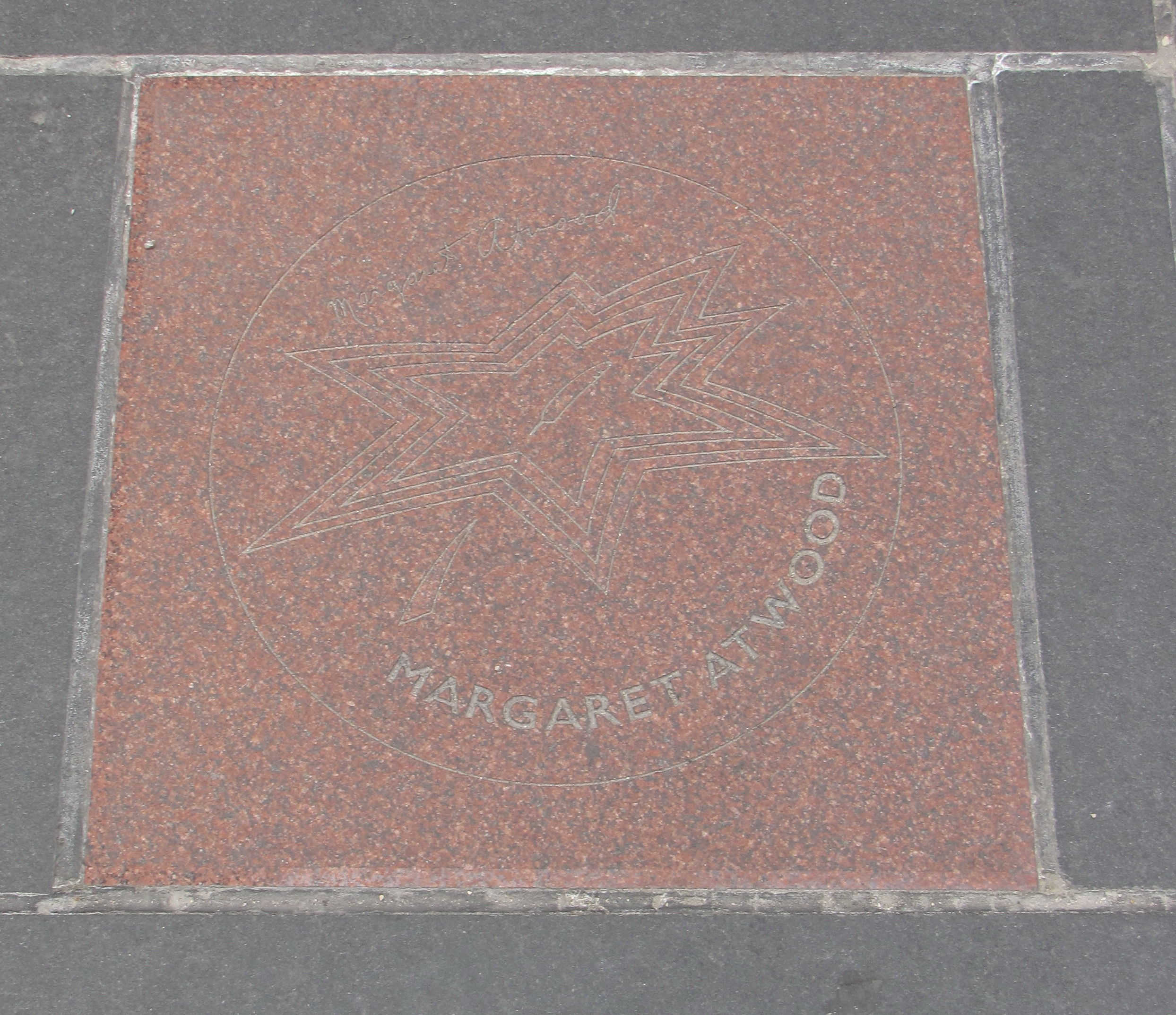 Margaret Atwood's star on Canada's Walk of Fame